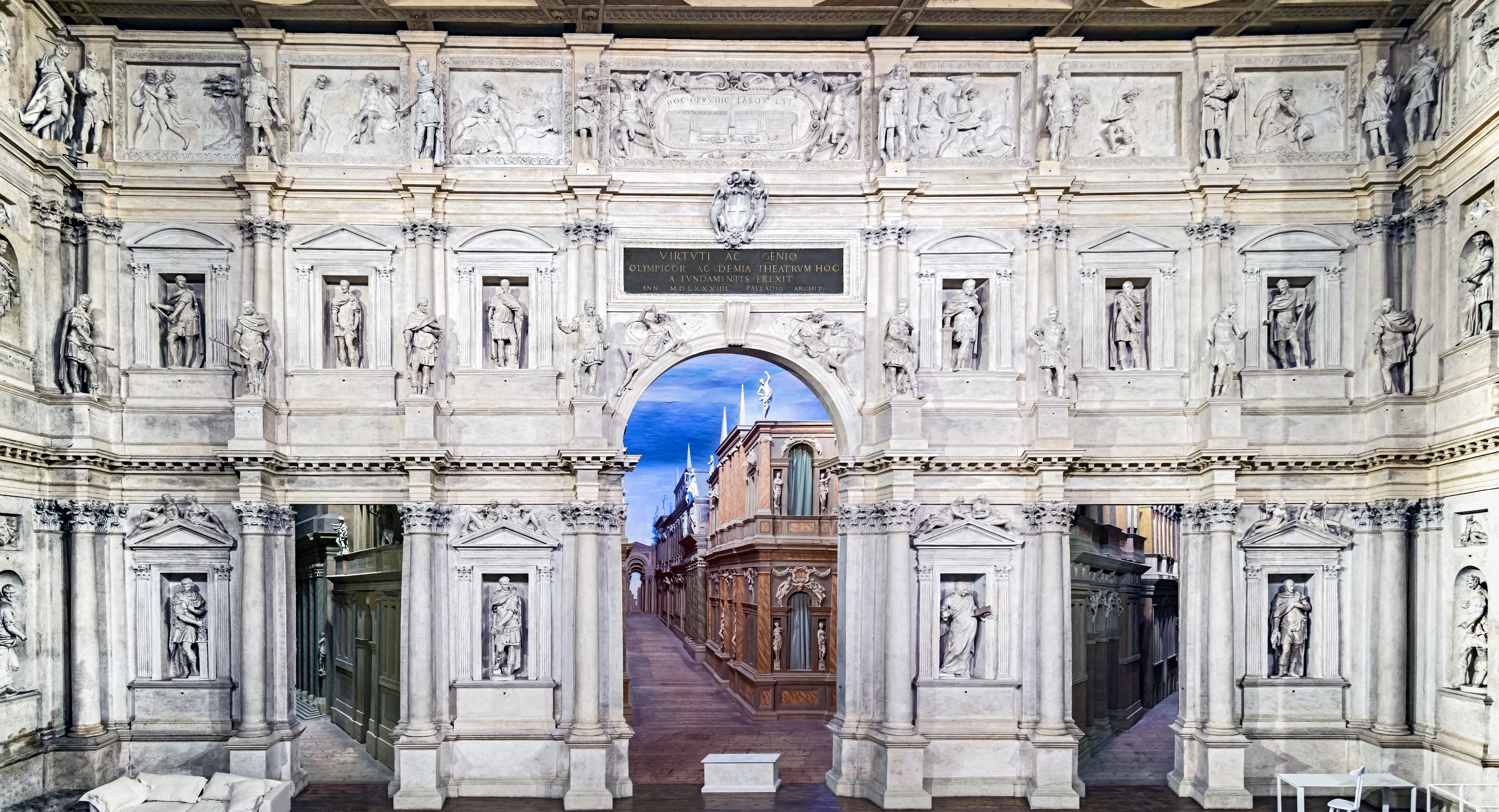 Teatro Olimpico. Theater located in Vicenza, designed in 1580 by the architect of the Renaissance Andrea Palladio. It is generally considered the first permanent covered theater of modern times. View of the stage wall (Scaenae frons). Detail of the wooden decor of Vincenzo Scamozzi, visible through the openings of the stage wall.